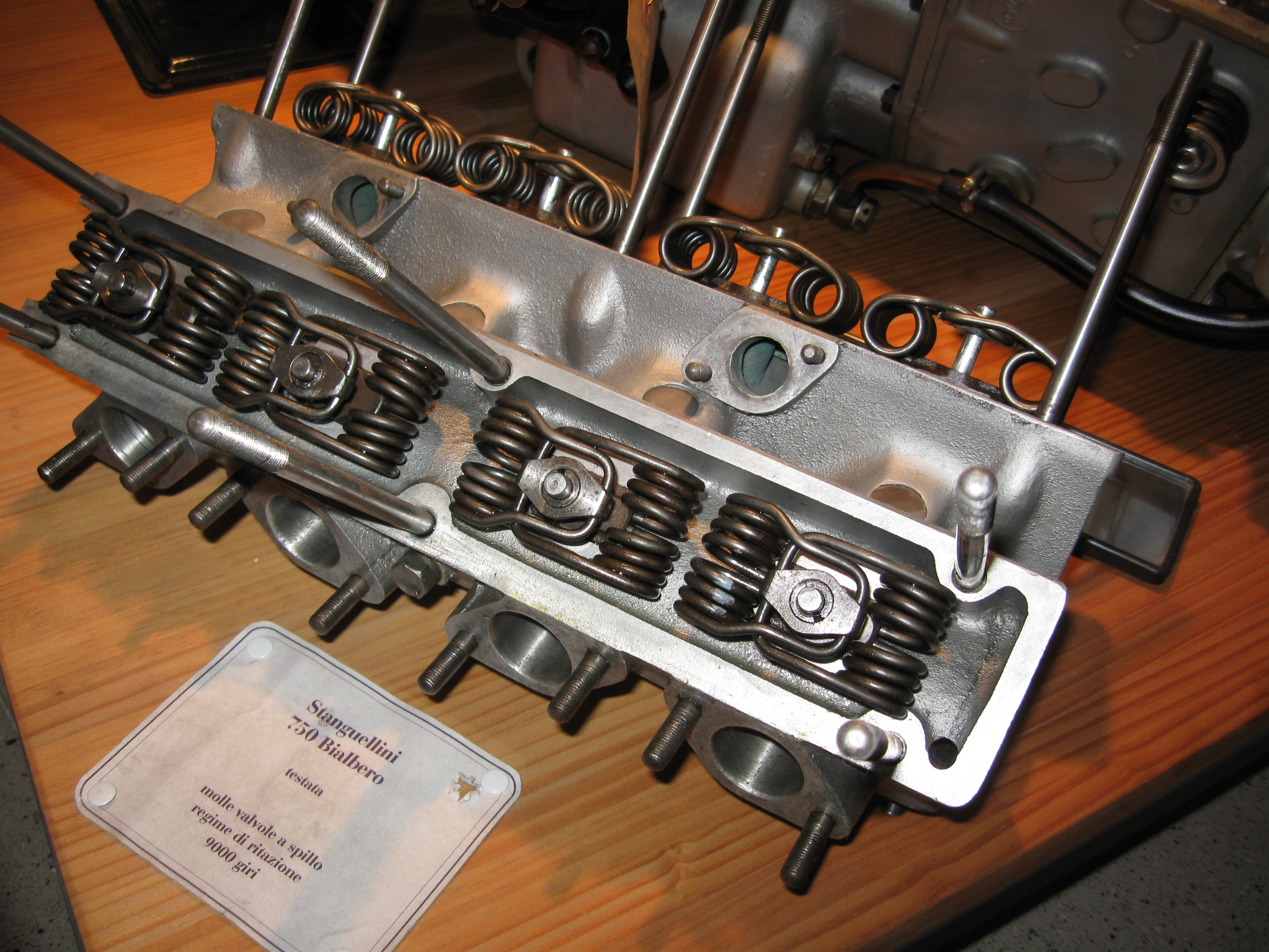 A DOHC cylinder head for a 750cc Stanguellini racing engine using twin hairpin valve springs for each valve. (Stanuellini Museum)